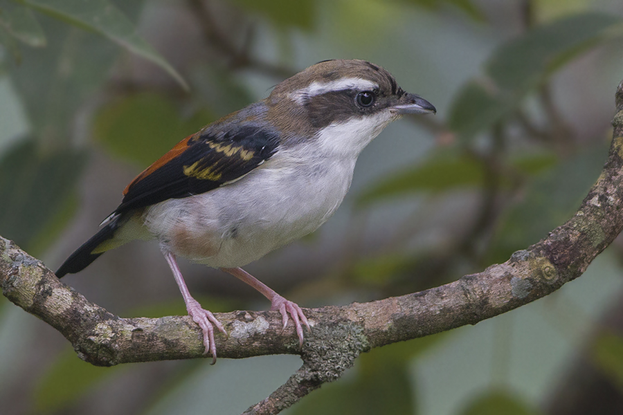 The specie Himalayan Shrike Babbler had been photographed during the bird photorgaphy trip of GoingWild to Pangot, Uttarakhand, India on 04.10.2014.